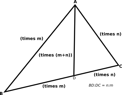 A diagram of a triangle useful for understanding Apollonius's theorem.